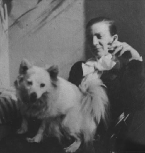 Maria von Linden was in 1892 the first woman student at the University of Tübingen (germany). Picture taken in 1902.